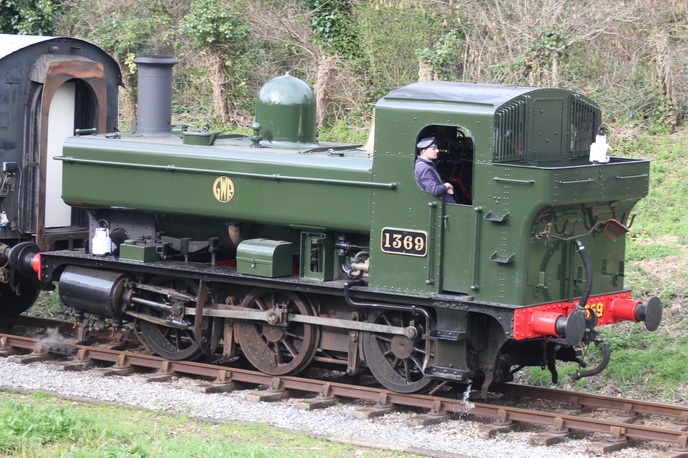 Pannier tank 1369 in its restored GWR livery, March 2020.